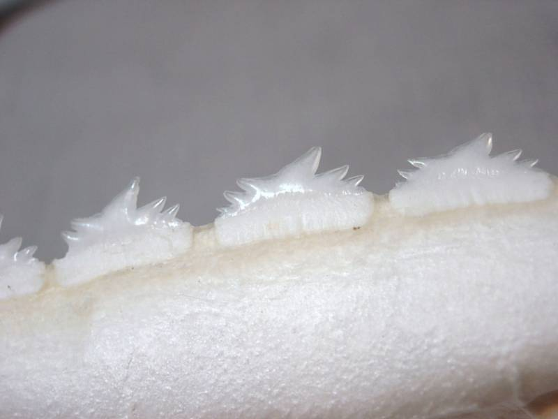 Rare image of the teeth on the Echinorhinus cookei jaw.